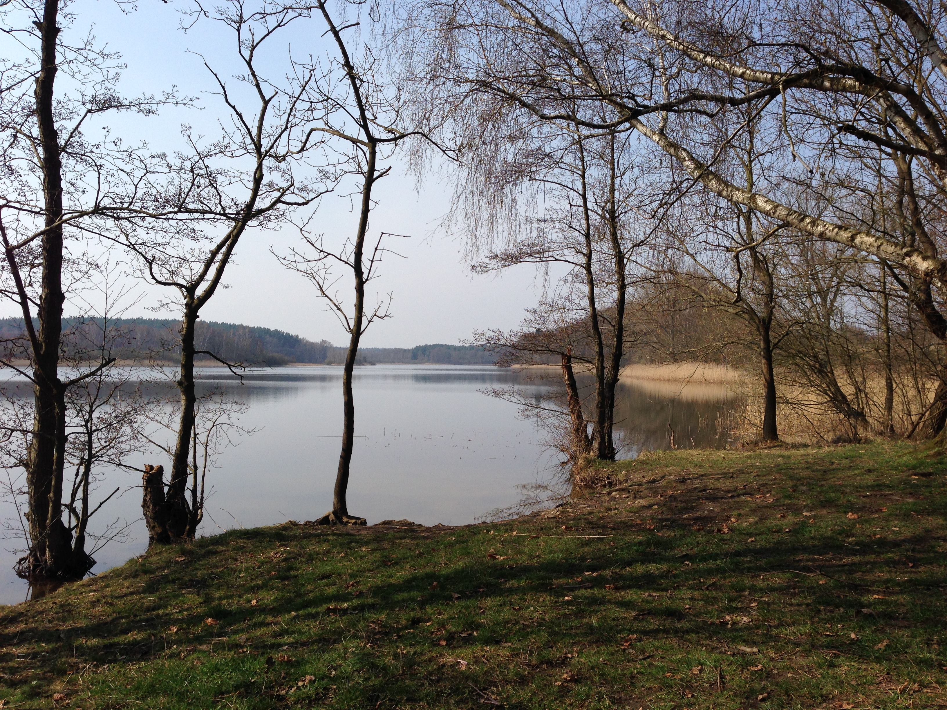 Wustrowsee near Sternberg, district Ludwigslust-Parchim, Mecklenburg-Vorpommern, Germany